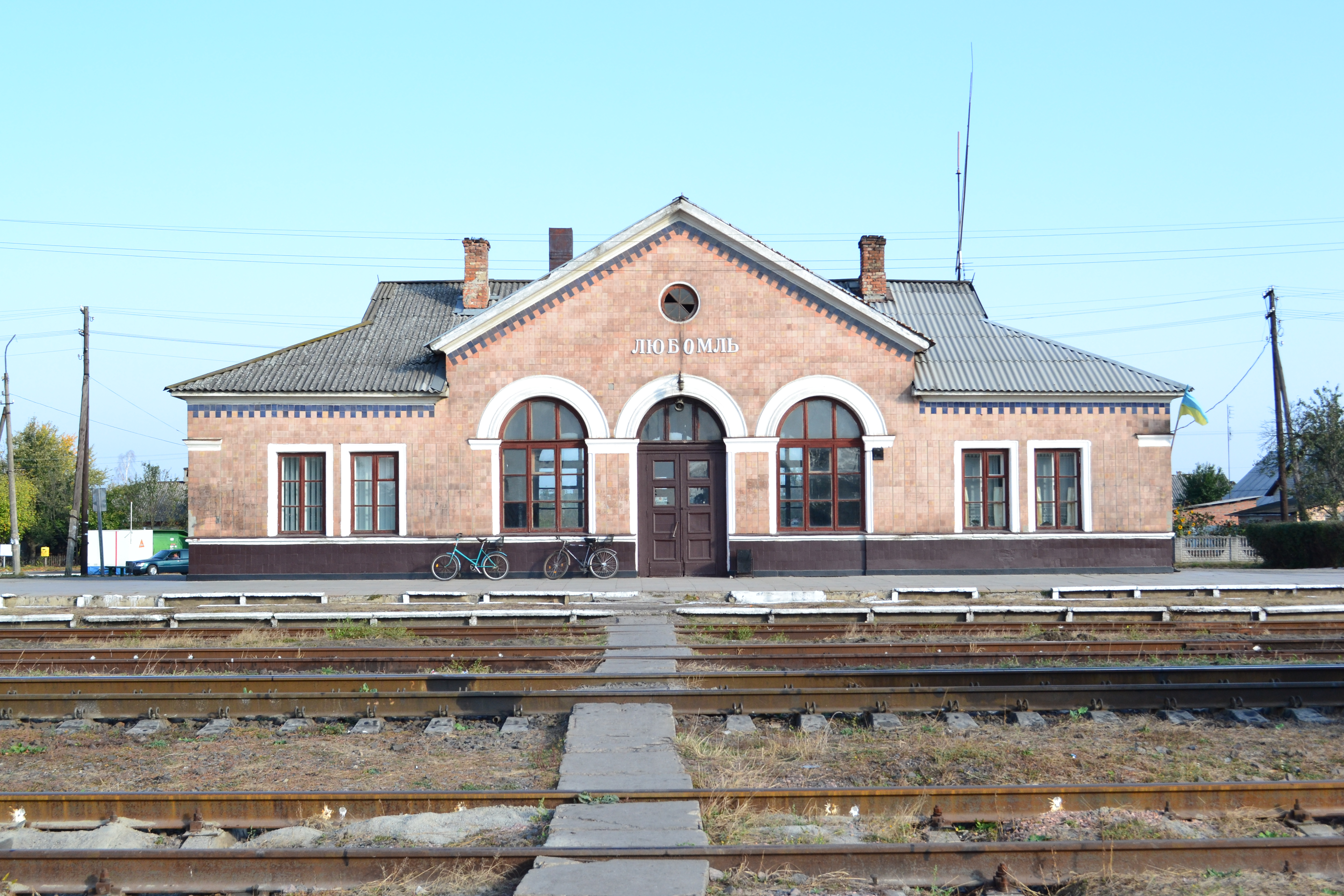 Railway station in Lyuboml